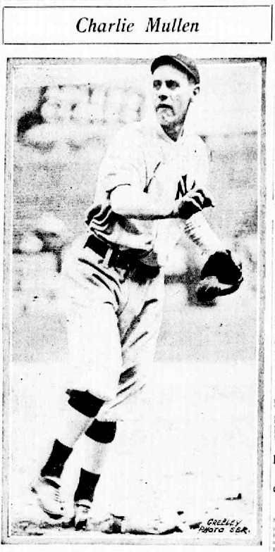 Newspaper photo of baseball player Charlie Mullen. Cropped, sharpened by the uploader.